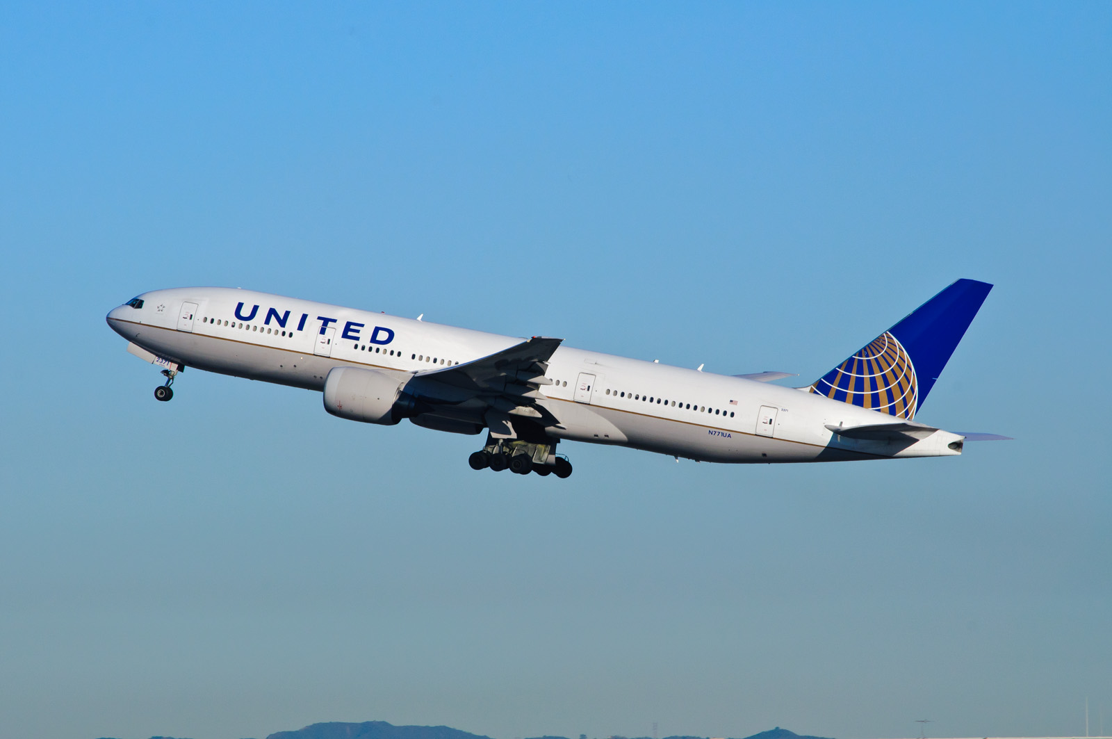 United Airlines offers a number of departures daily from LAX using the 777, but this is the only domestic one. Flight 950 leaves shortly before 8 every morning for Washington Dulles, with continuing service to Brussels, using a short-range 3-class 777. This aircraft, the third Boeing 777 off the assembly line, is very special to me. She first took to the skies on 2 August 1994, under registration N7773, as part of the Boeing 777 certification program, and that was the day I visited the Boeing Everett factory. Later on, on 9 December 1999, she was the exact aircraft that greeted me at Schiphol Airport after a week of nightmare in sexist, homophobic Amsterdam; listening to Melissa Etheridge as the United inflight programming on my way home was such a relief that day. This is my first time sighting this aircraft since leaving Amsterdam - one day short of the 12th anniversary of that moment. The Amsterdam experience is the key reason why United has been my favorite airline ever since. N771UA continued to soldier on in badly decayed Battleship Gray paint until early 2011, when she gained the current Continental Disco Ball livery seen here. "Fly the Lesbian-Friendly Skies" N771UA, Boeing 777-200 (XC)